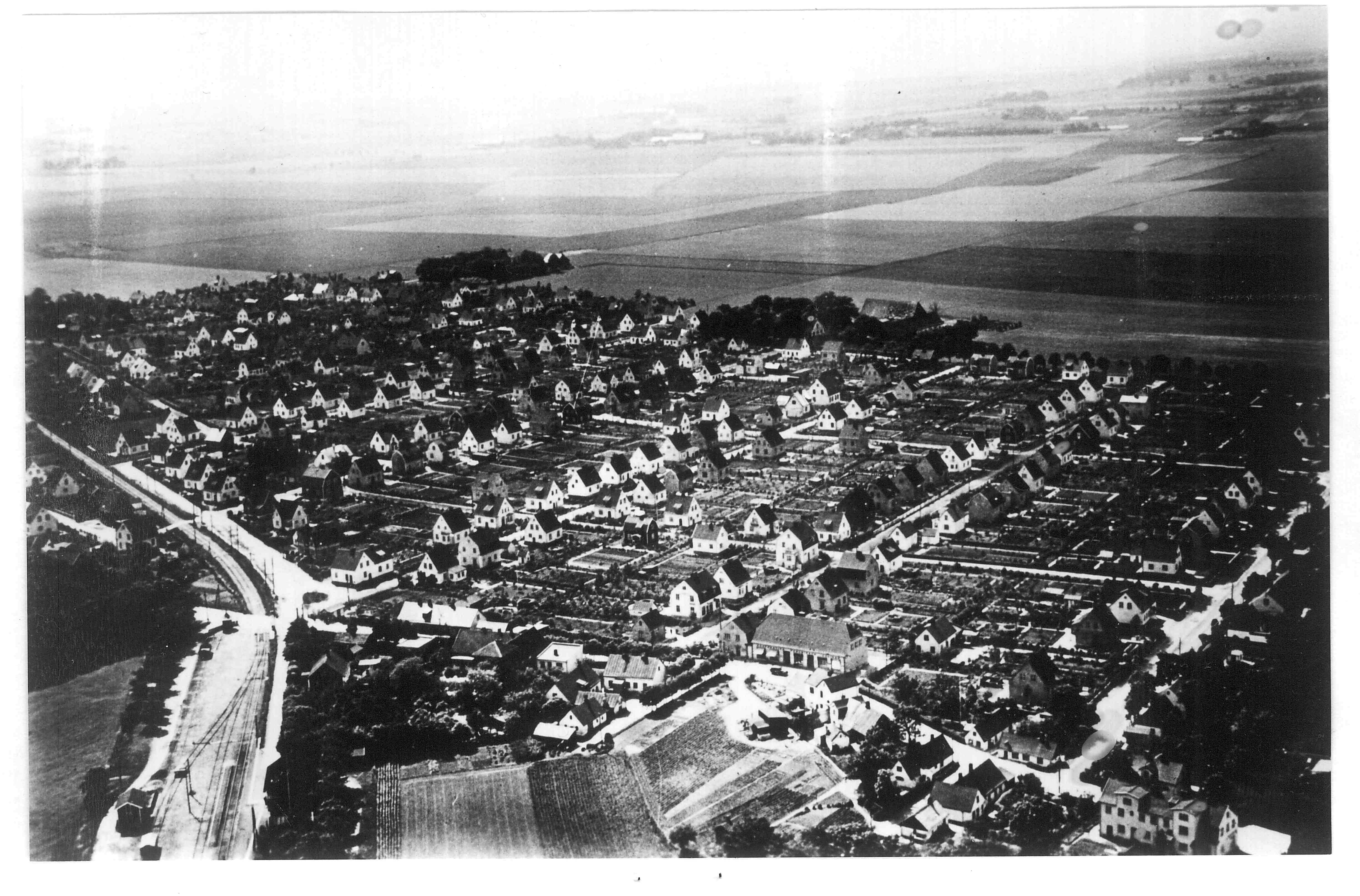 Kulladal, south of Malmo city, Sweden, about 1920.